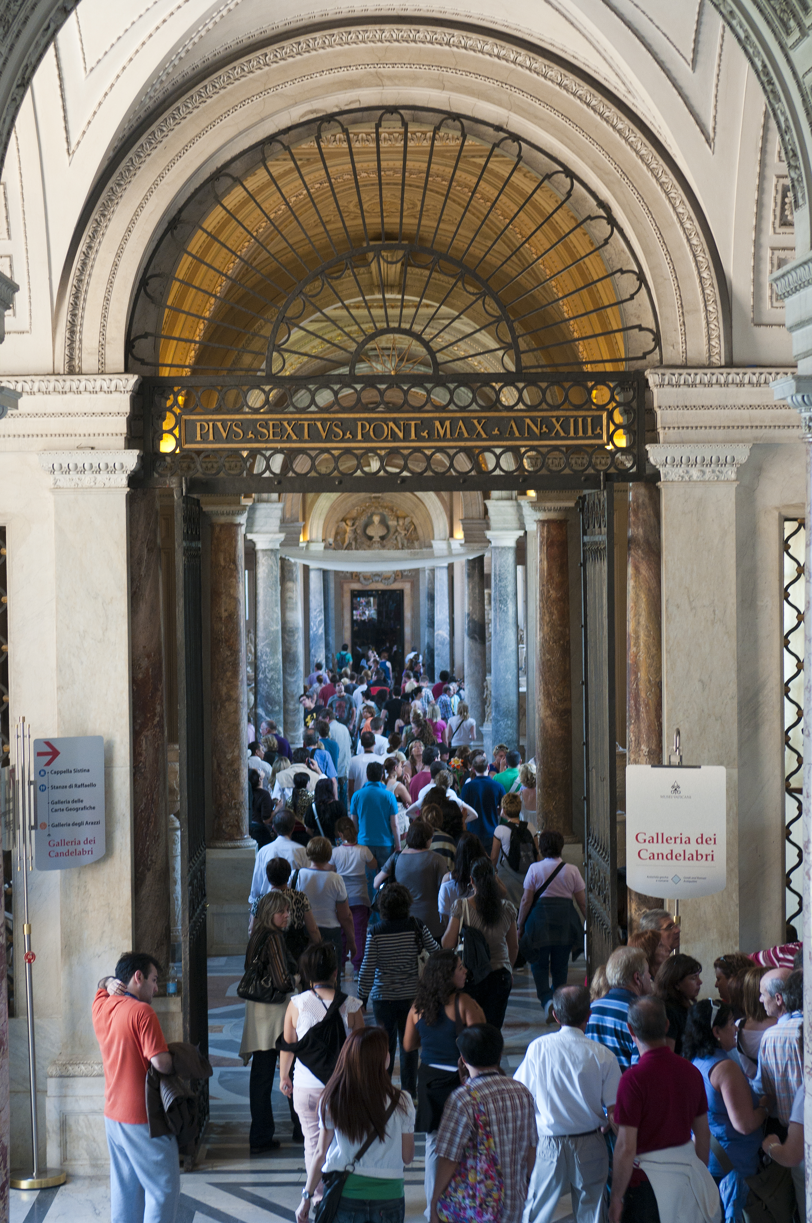 Crowds in Vatican Museum